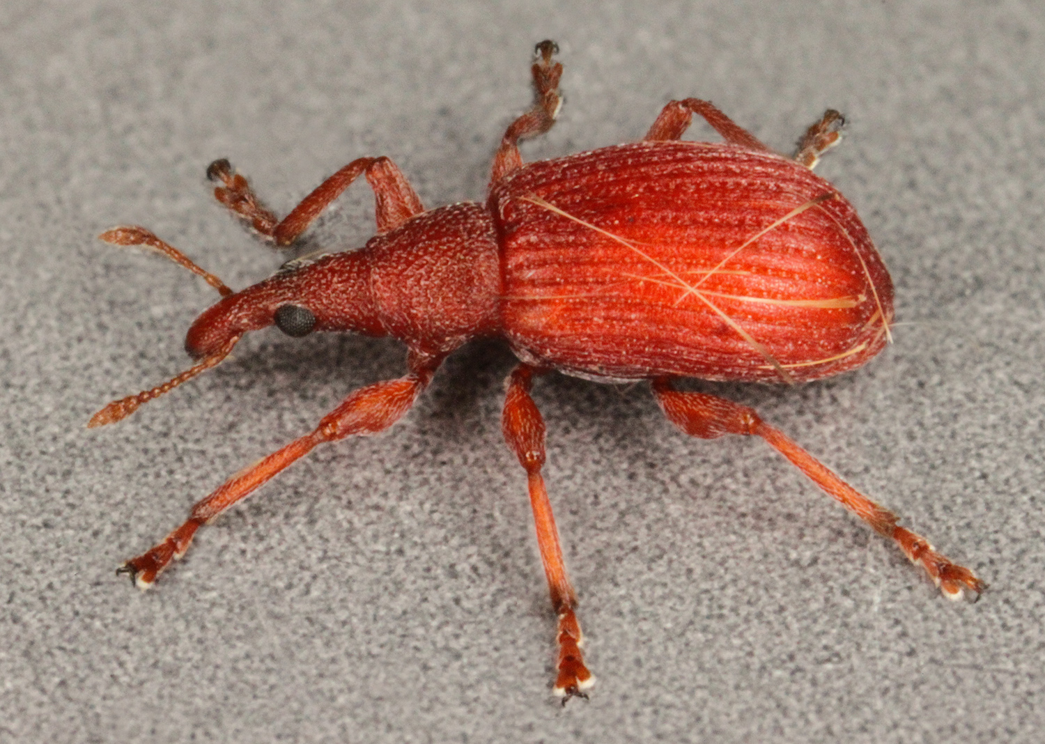 Apion frumentarium, Tolfannau, North Wales, May 2010 (2)